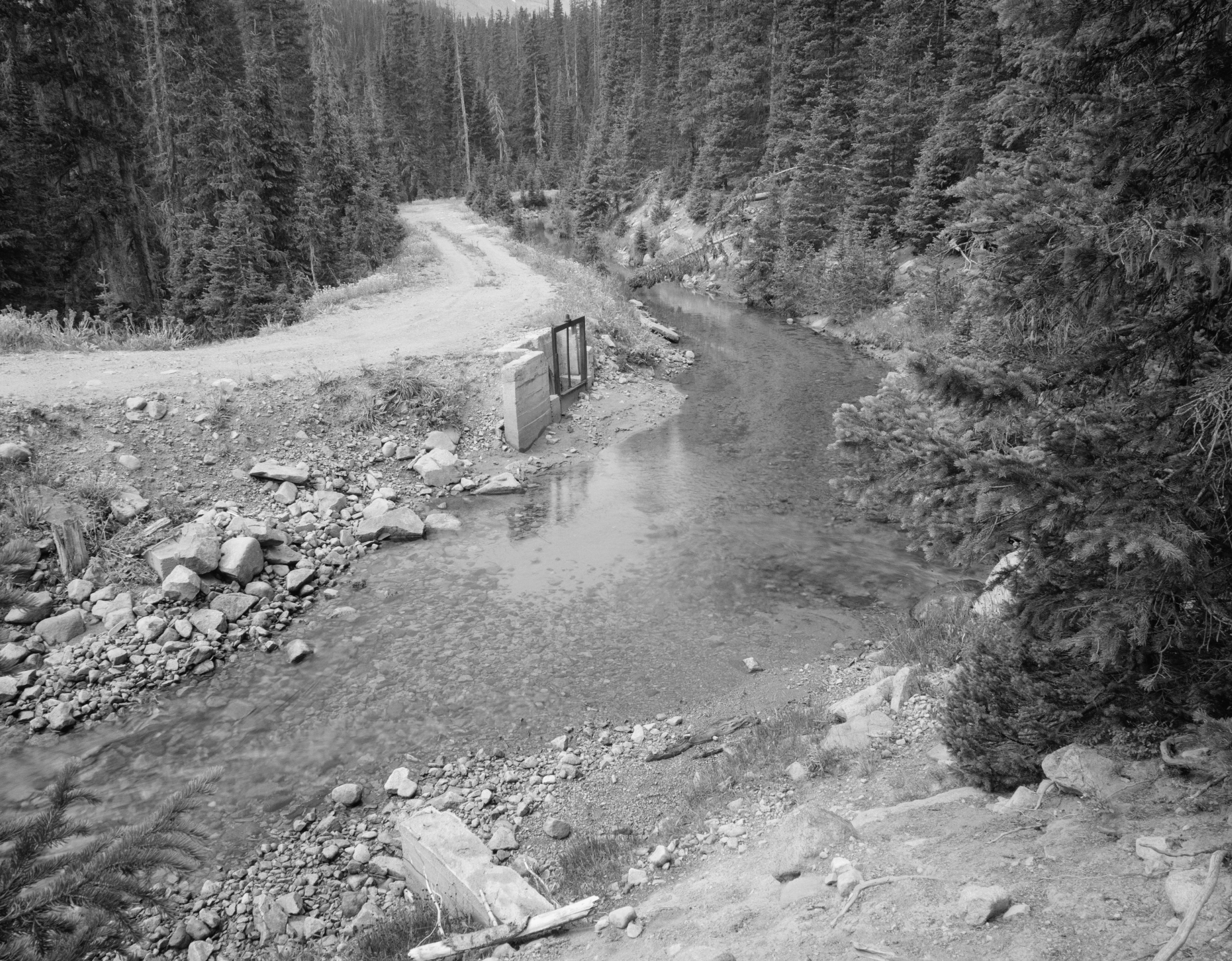 Along the Grand River Ditch near Grand Lake in Grand County, Colorado, United States, within Rocky Mountain National Park. Built in 1890, it is listed on the National Register of Historic Places.